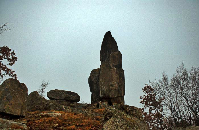 Гарванов камък